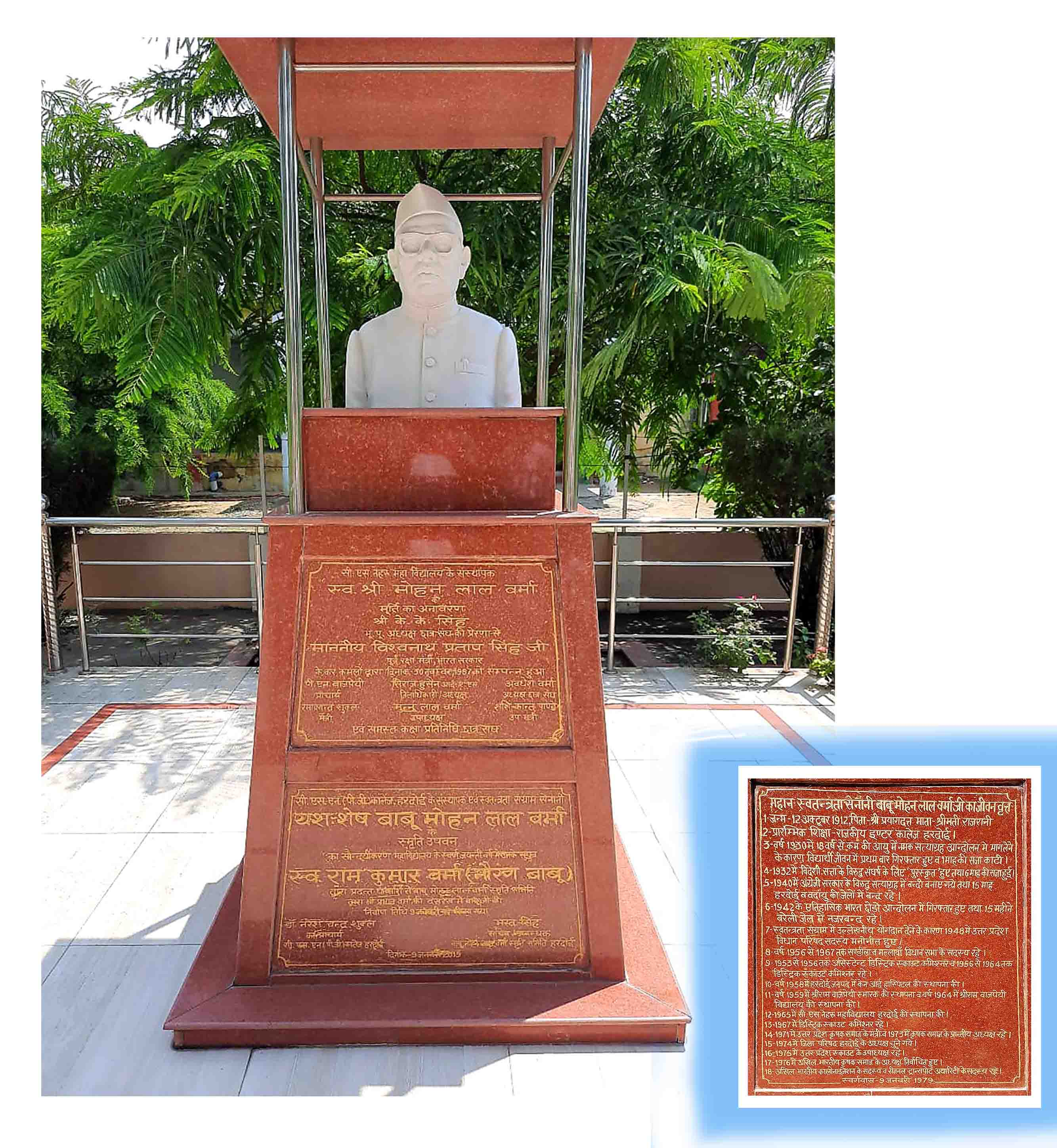 Babu Mohan Lal Verma's bust unveiled by Shri VP Singh, ex-Prime Minister and Defence Minister India